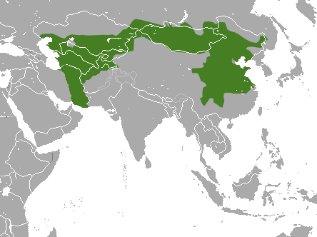 Tolai Hare (Lepus tolai) range